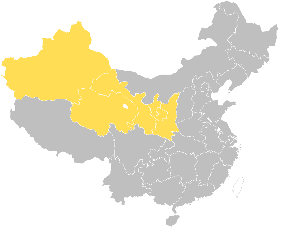 Xibei (northwestern provinces of China)